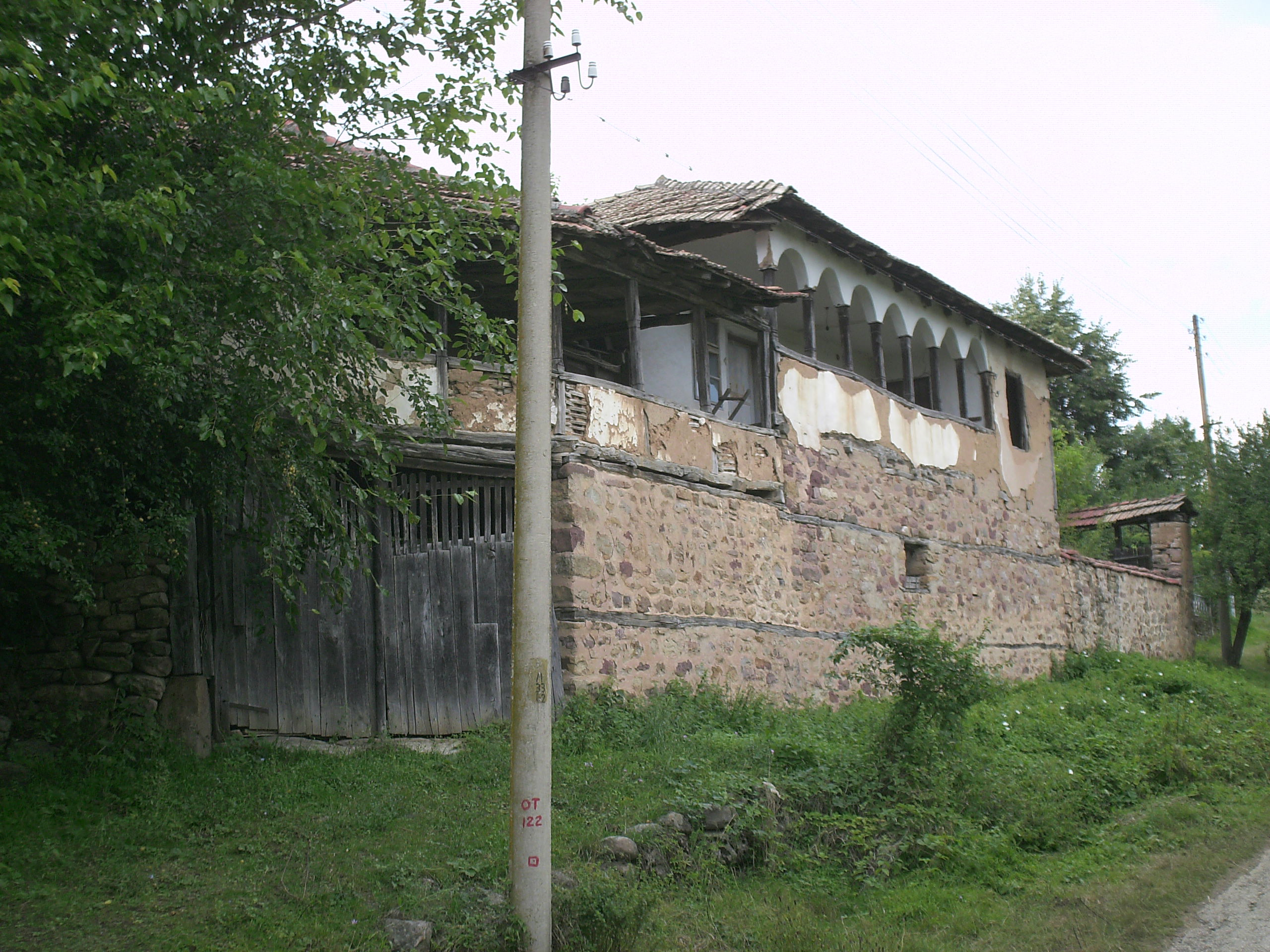 A old and very interesting bulgarian rural house from the village of Gorna Kovachica.